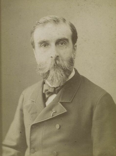 Portrait of French writer Ludovic Halevy early in his career